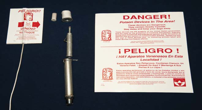 The M-44 ejector device consists of a capsule holder wrapped with soft material, a small plastic container holding sodium cyanide, a spring- activated ejector, and a stake. Bilingual warning signs mark the placement of each device.